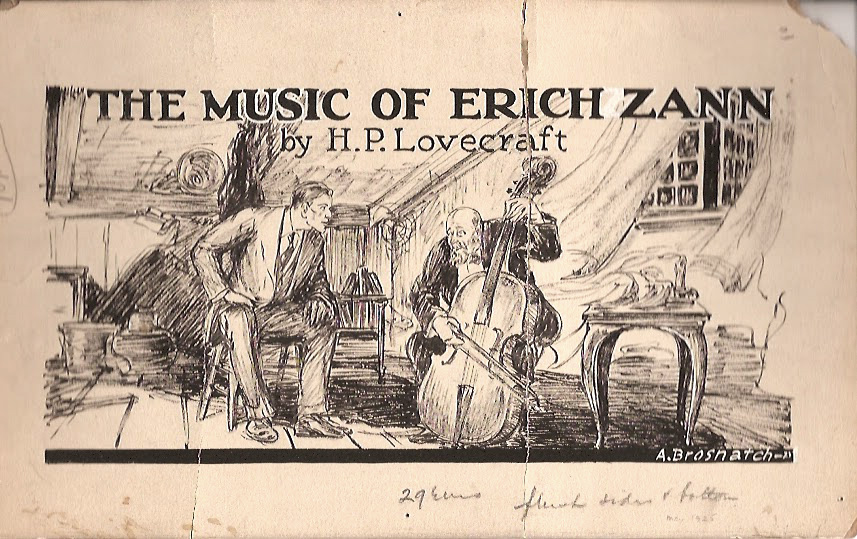 Weird Tales, May 1925. Artwork by Andrew Brosnatch (1896-1965).